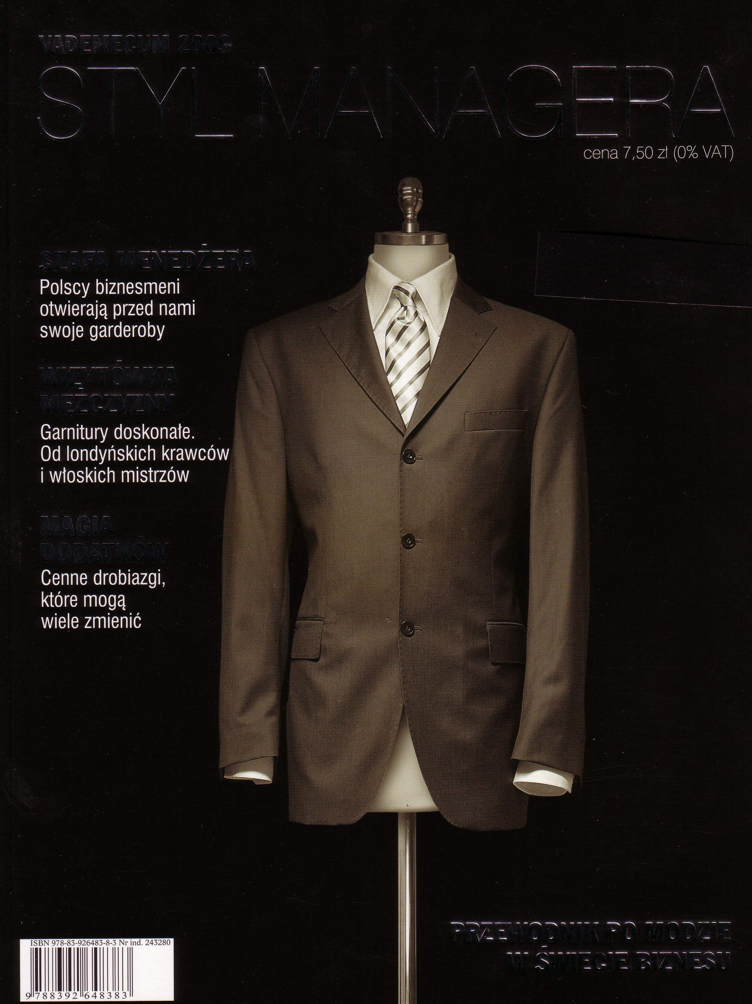 Cover of yearbook/special: Vademecum Styl Managera (polish)